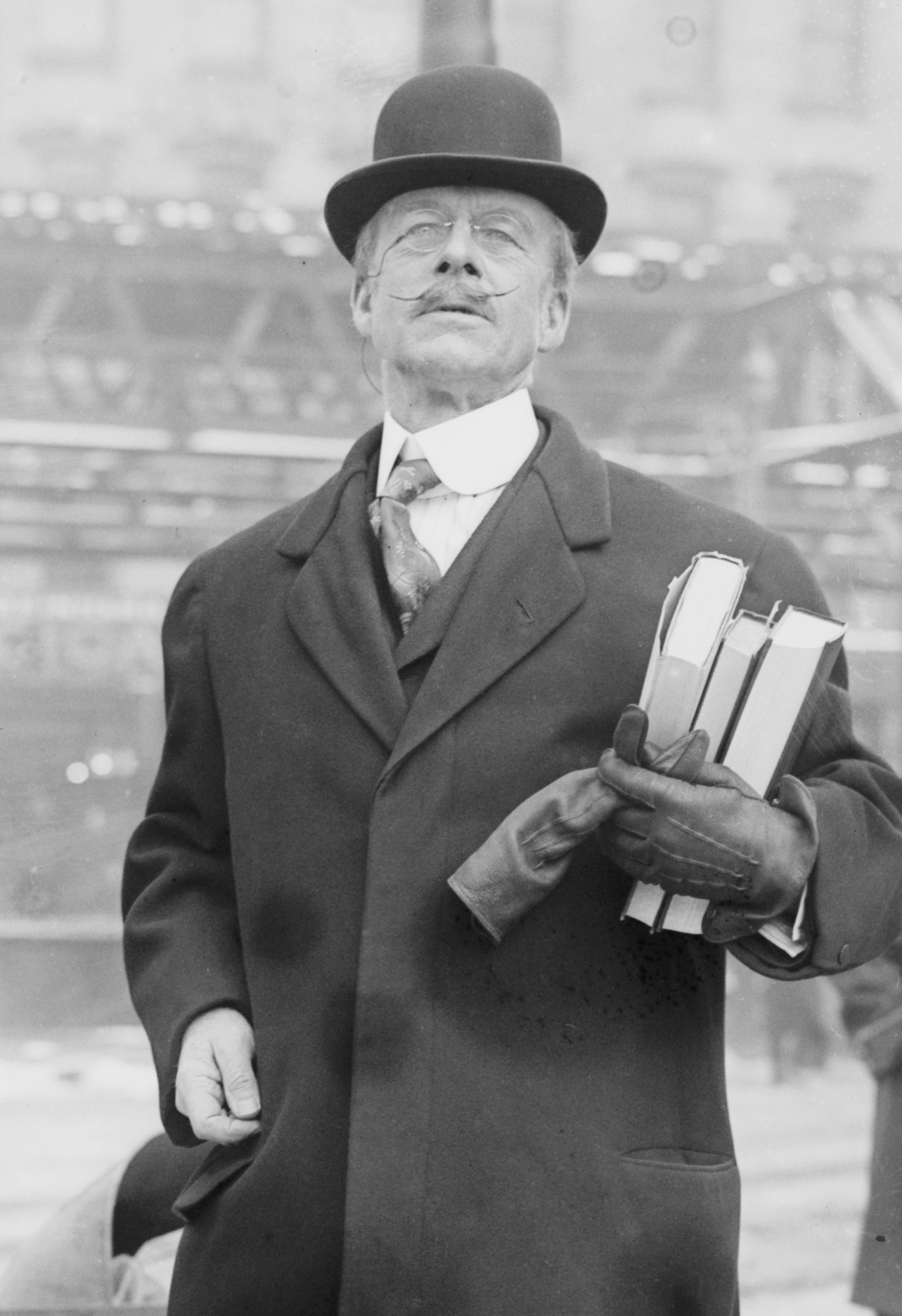 John Ellis Roosevelt (1853–1939) circa 1915-1916. Image from the Library of Congress.